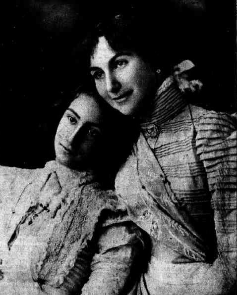 Portrait of Noni and Madge Rickards, the daughters of Kate Rickards (1862– 1922) and Harry Rickards (1843 – 1911). At the time the girls were both appearing in their father's production of Puss in Boots.